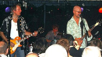 Wishbone Ash, The Lemon Tree Aberdeen 28th October 2006.